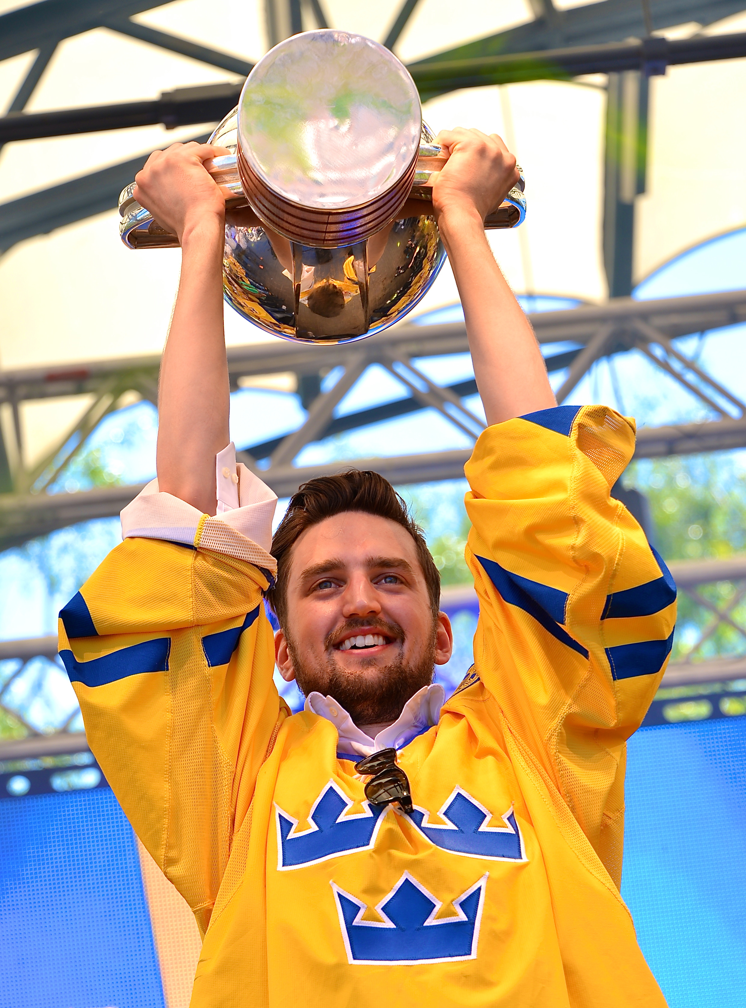 Jhonas Enroth lifts the World Cup trophy in Kungsträdgården in Stockholm on May 20th after the Swedish victory in the IIHF World Championship 2013.